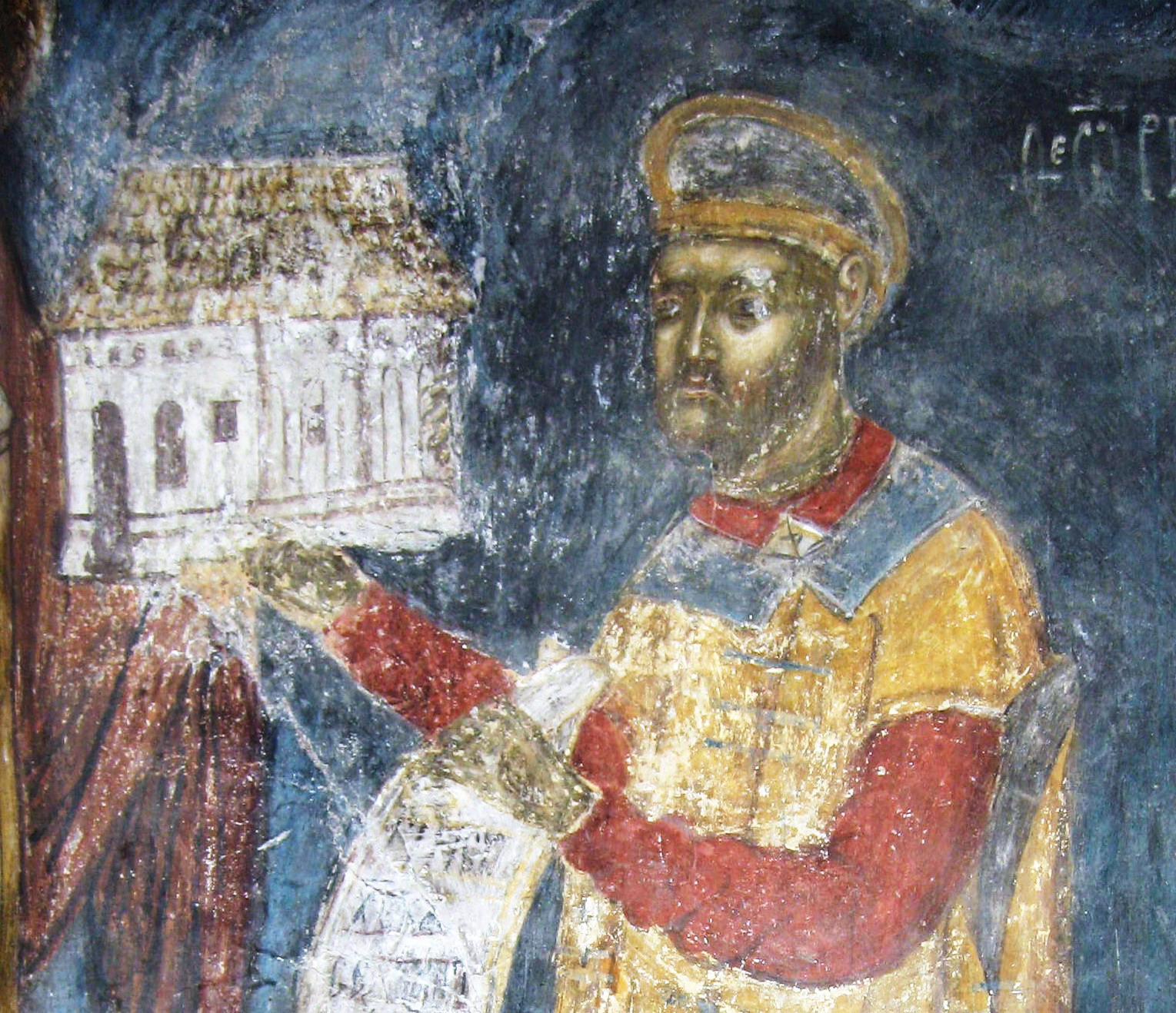 Humor Monastery